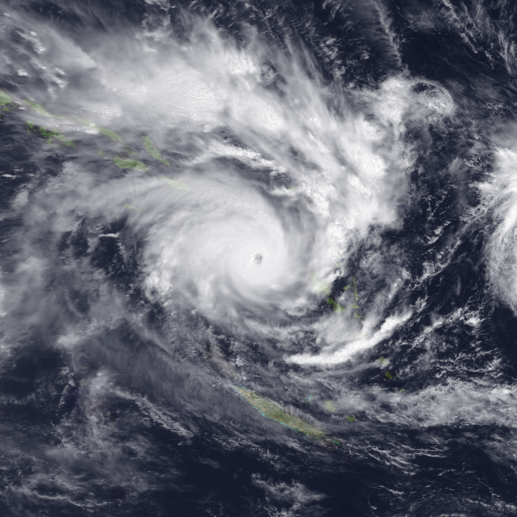 Cyclone Susan near peak intensity east of Tuvalu on January 5, 1998